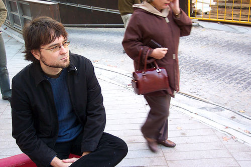 Spanish comic writer Mauro Entrialgo